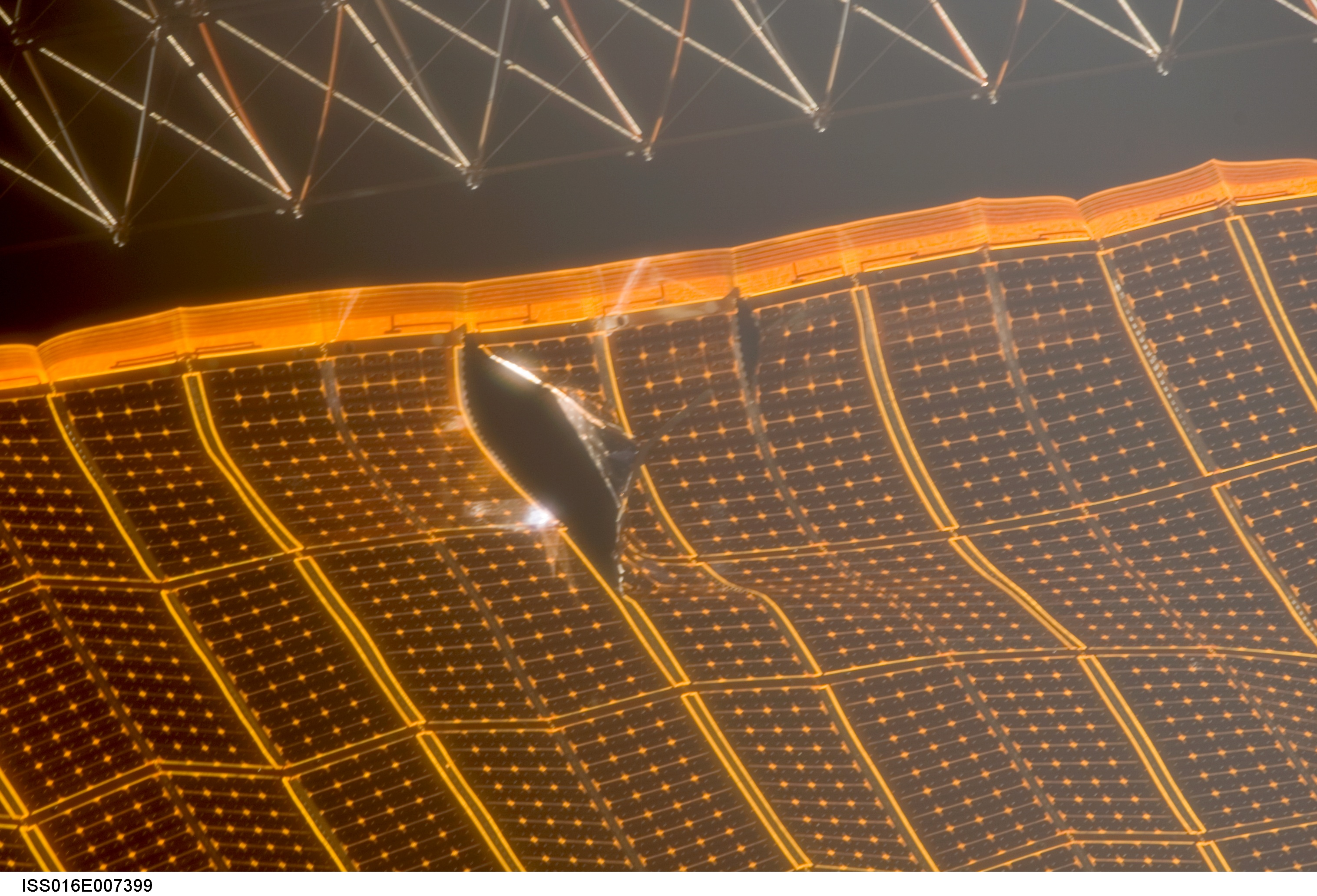 Damage to ISS P6 4B solar array, October 30, 2007.